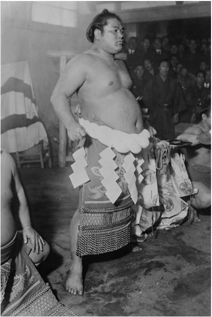 Ōnishiki Uichirō, the 26th Yokozuna